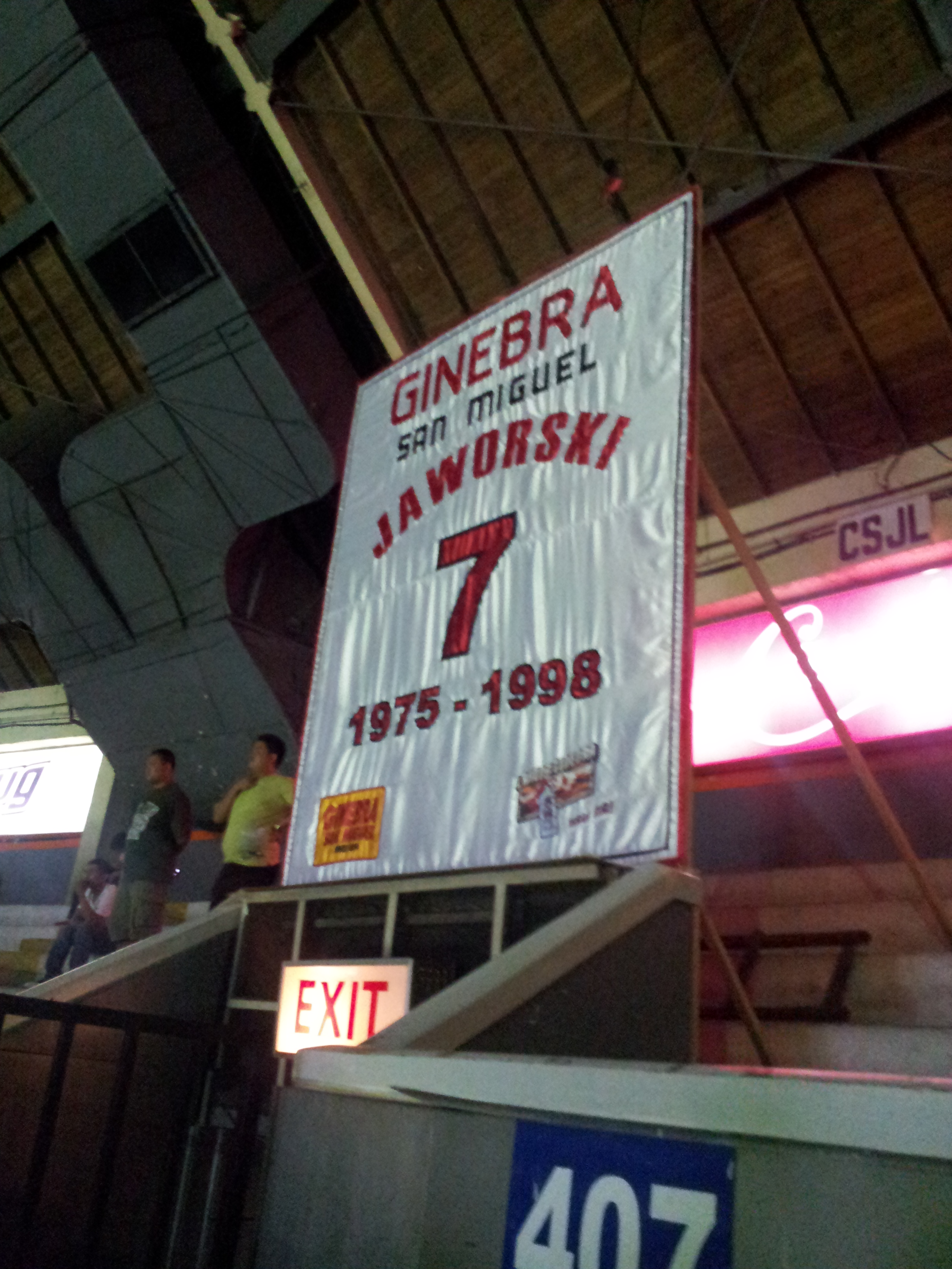 Robert Jaworski's retired jersey banner unveiled at the rafters of the Smart Araneta Coliseum